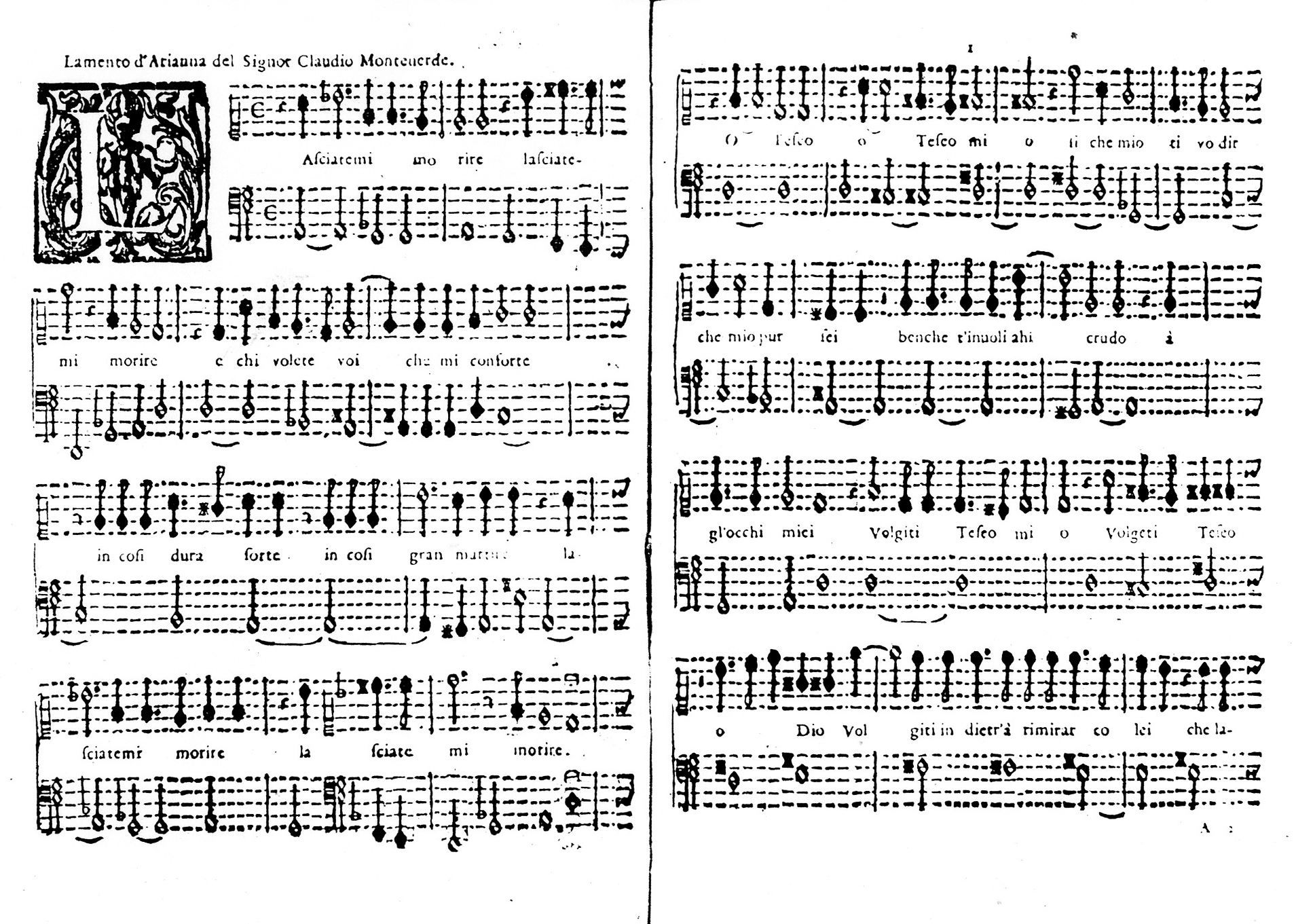 first two pages of the first edition of the Lamento d'Arianna by Claudio Monteverdi (1567–1643), published by Gardano in Venice in 1623.